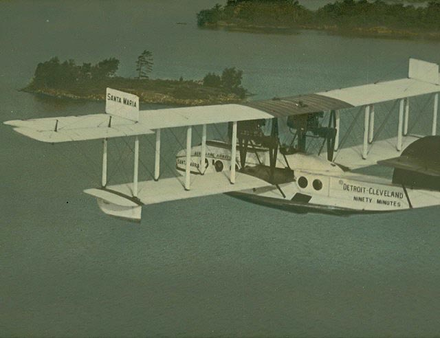 Photograph of the Aeromarine 75 'Santa Maria' in the summer of 1922.